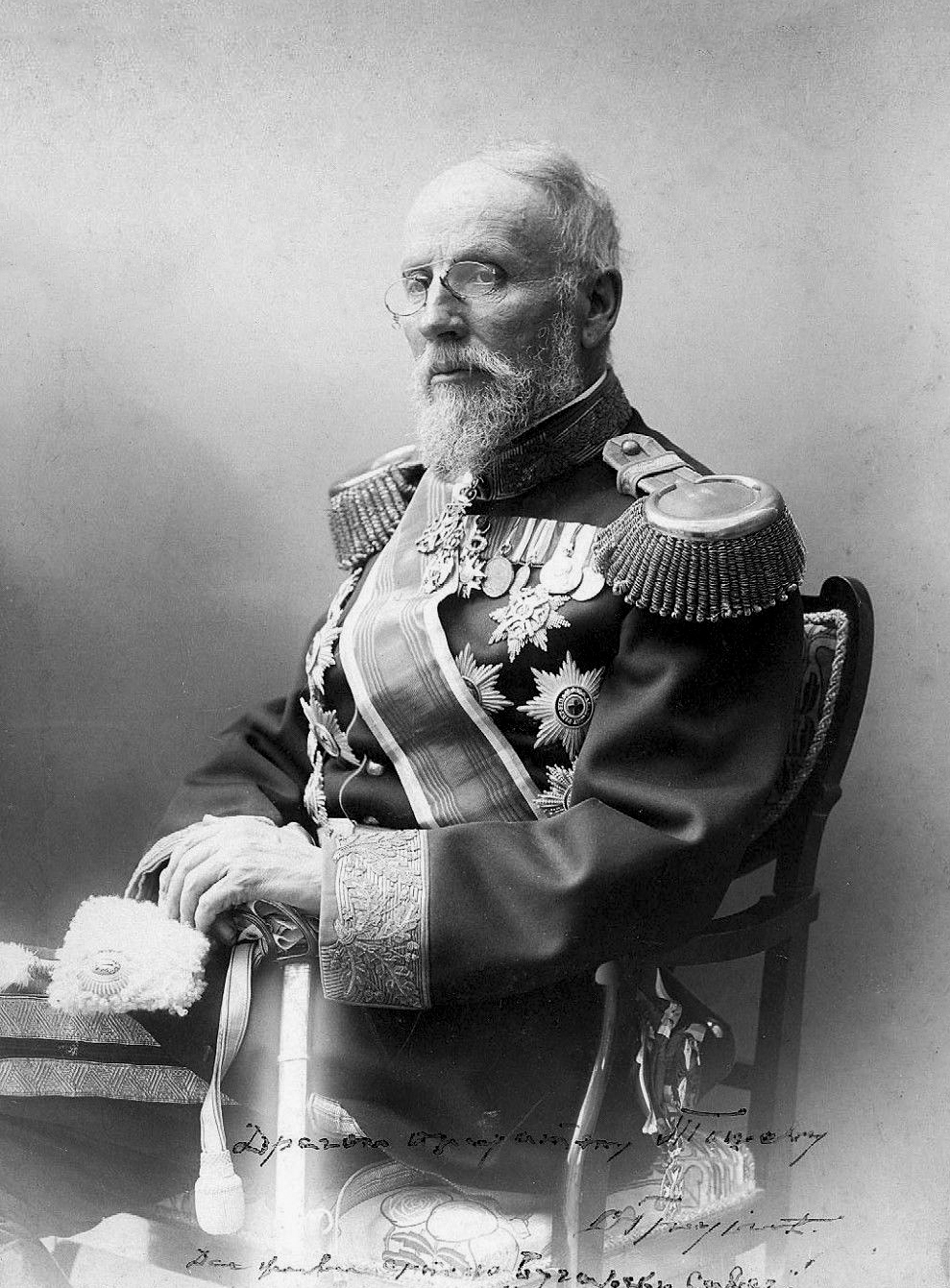 General Sava Grujic in 1912